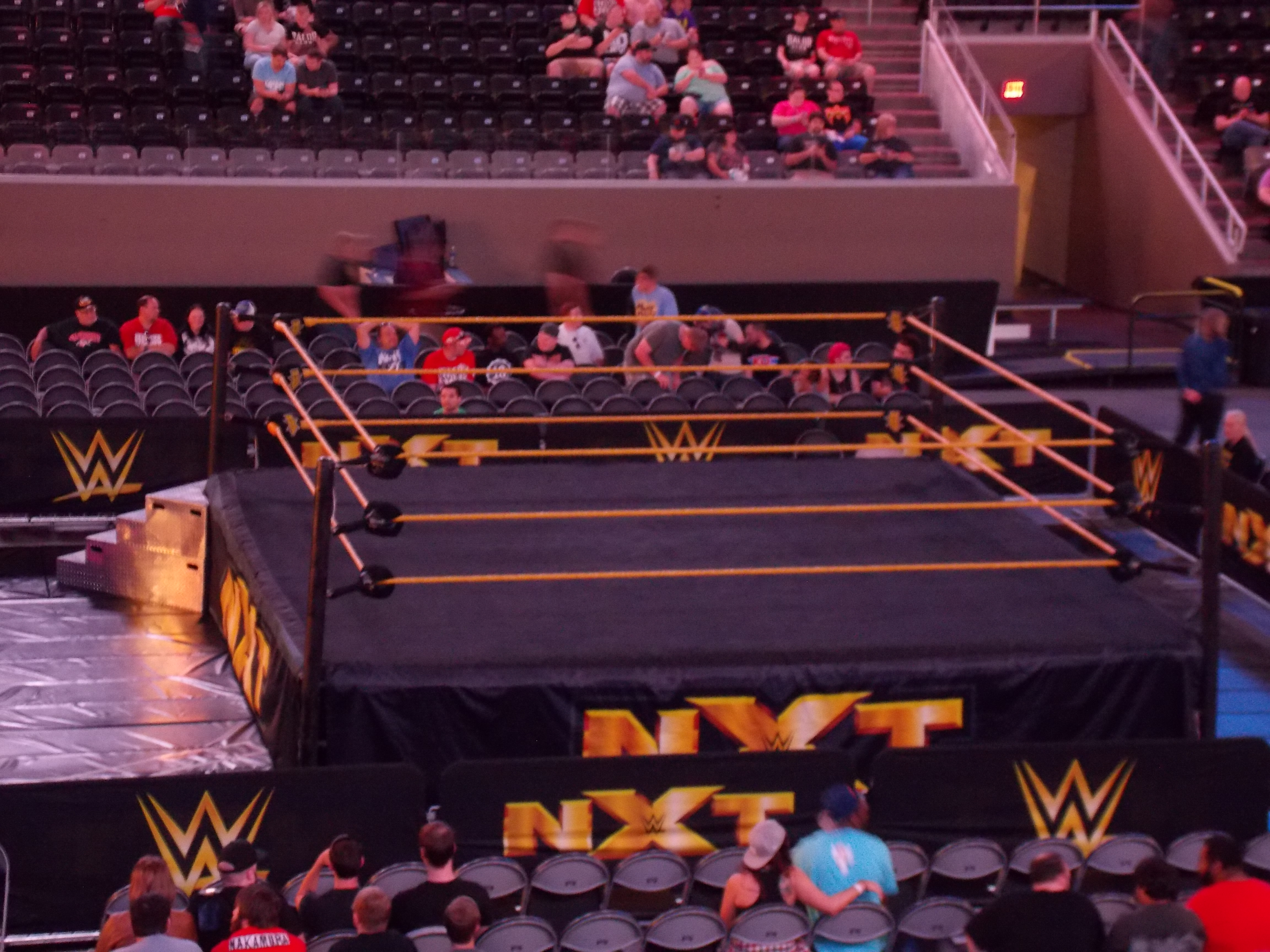 WWE NXT Live Event in Omaha, Nebraska, USA on Saturday, September 17, 2016